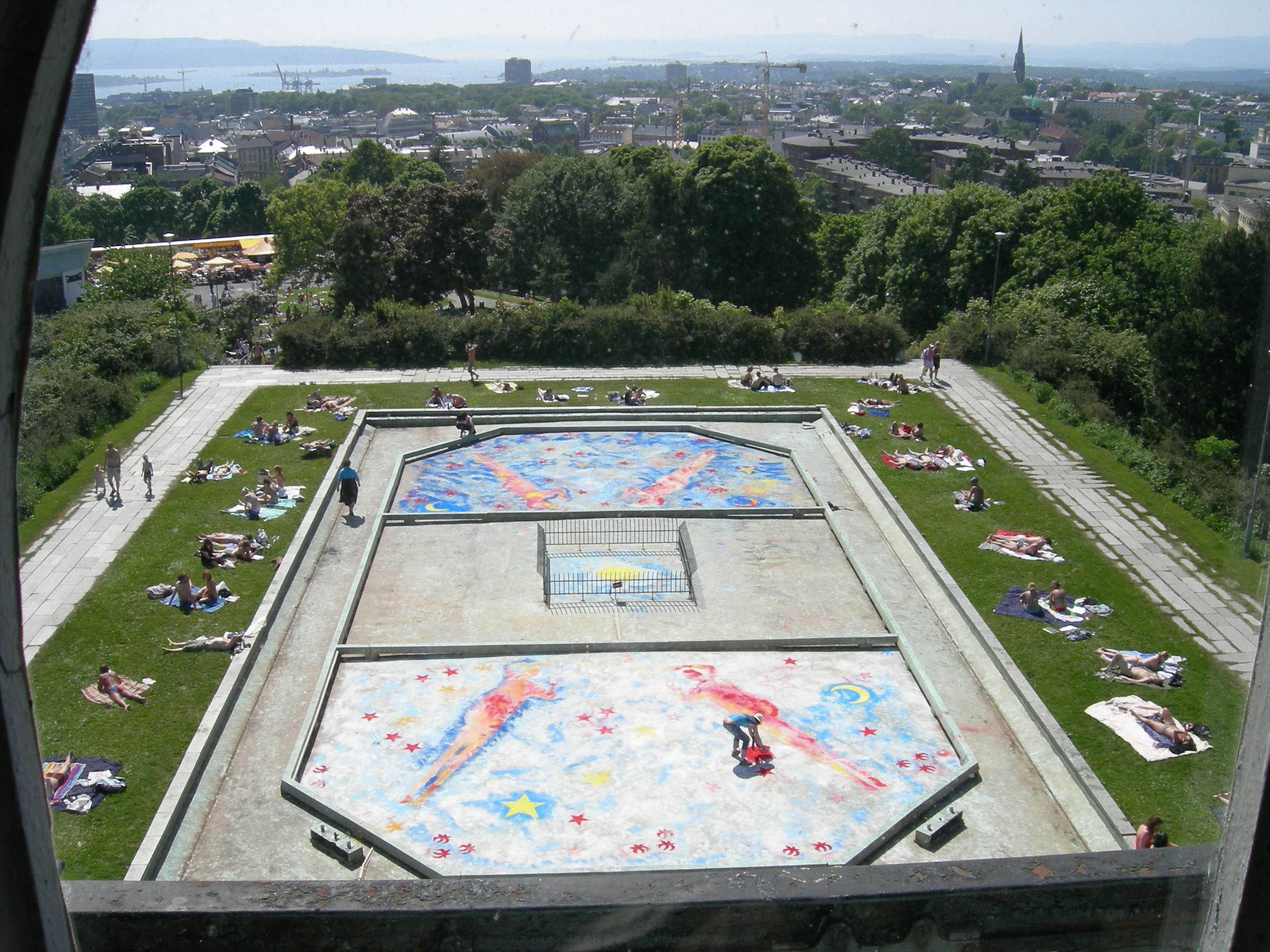 View from house on top of St. Hanshaugen park, Oslo, Norway. We see the basin in the park, central and westernpar of the city and the Oslo Fjord. Photo taken by myself.